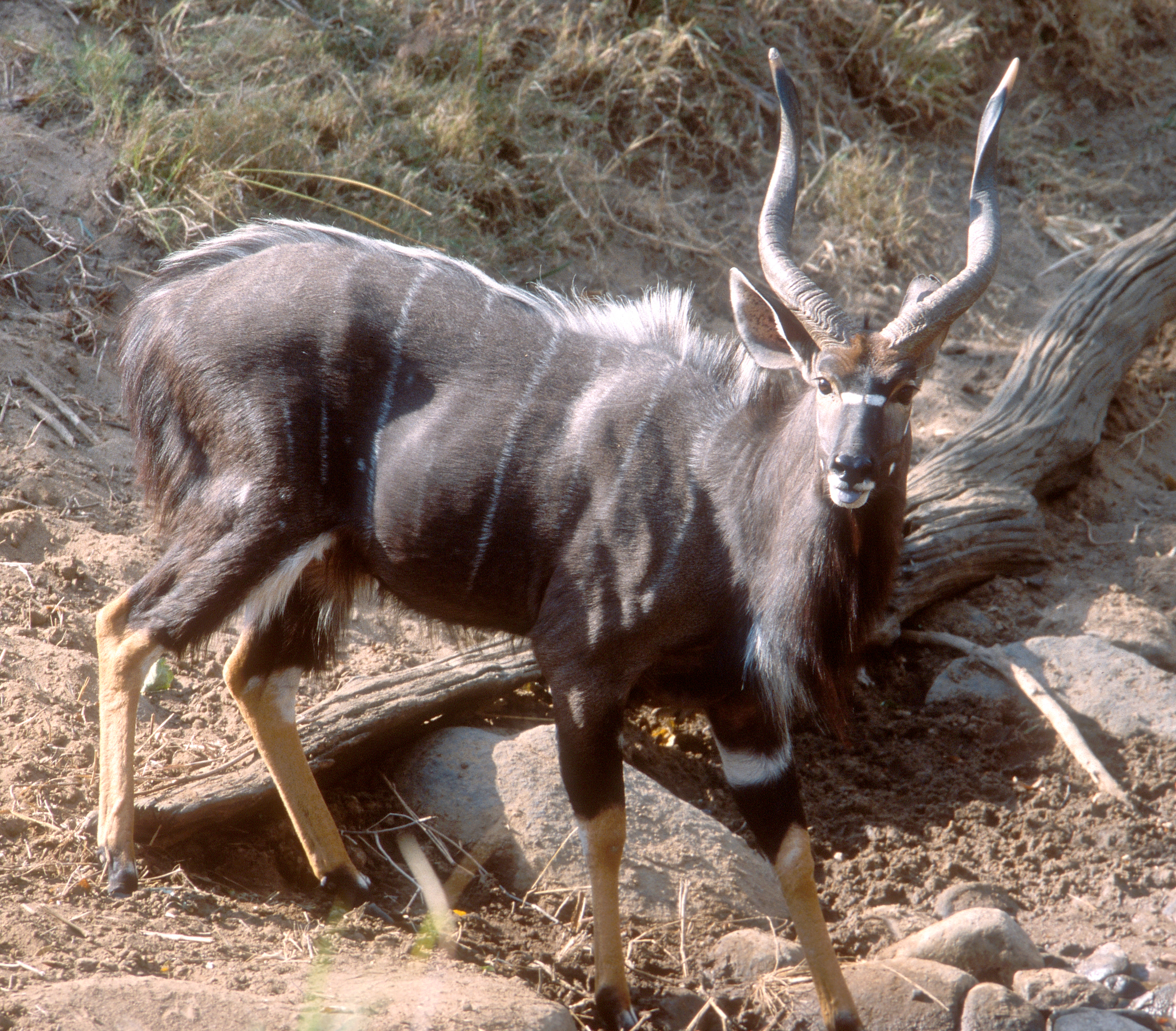 Male nyala (Tragelaphus angasii), Kruger National Park, South Africa